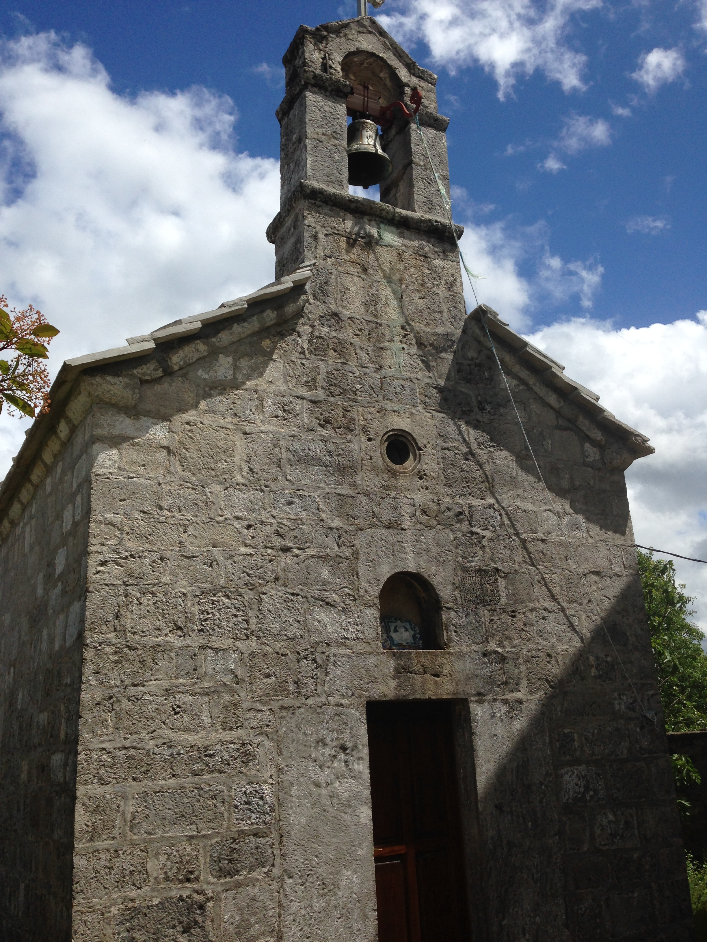 Monastery Dobrićevo 3